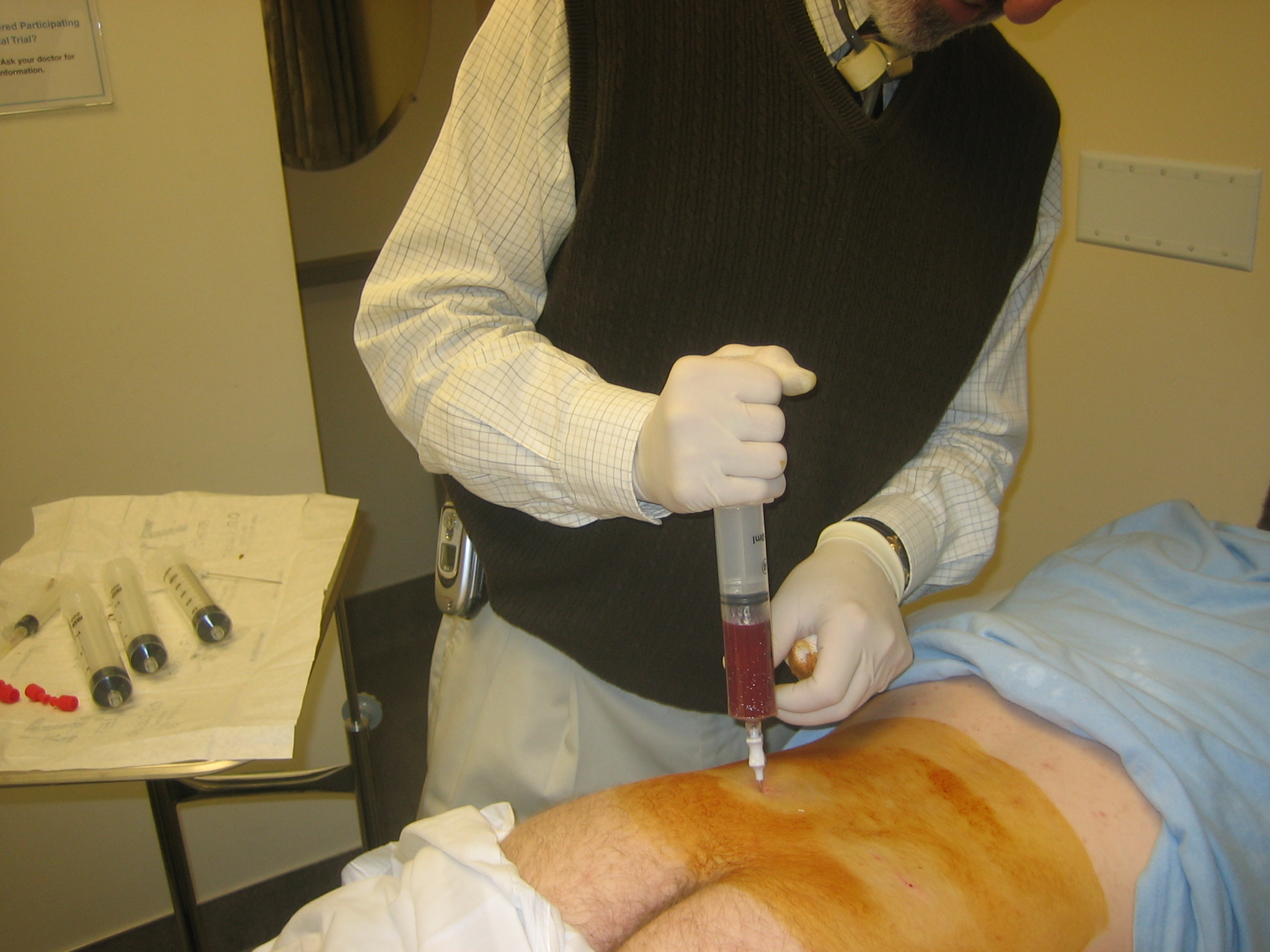 They do this process four times, and extract around 100cc's of my bone marrow. Then they use it for cancer research. I get paid 450 bucks for my pain and suffering.